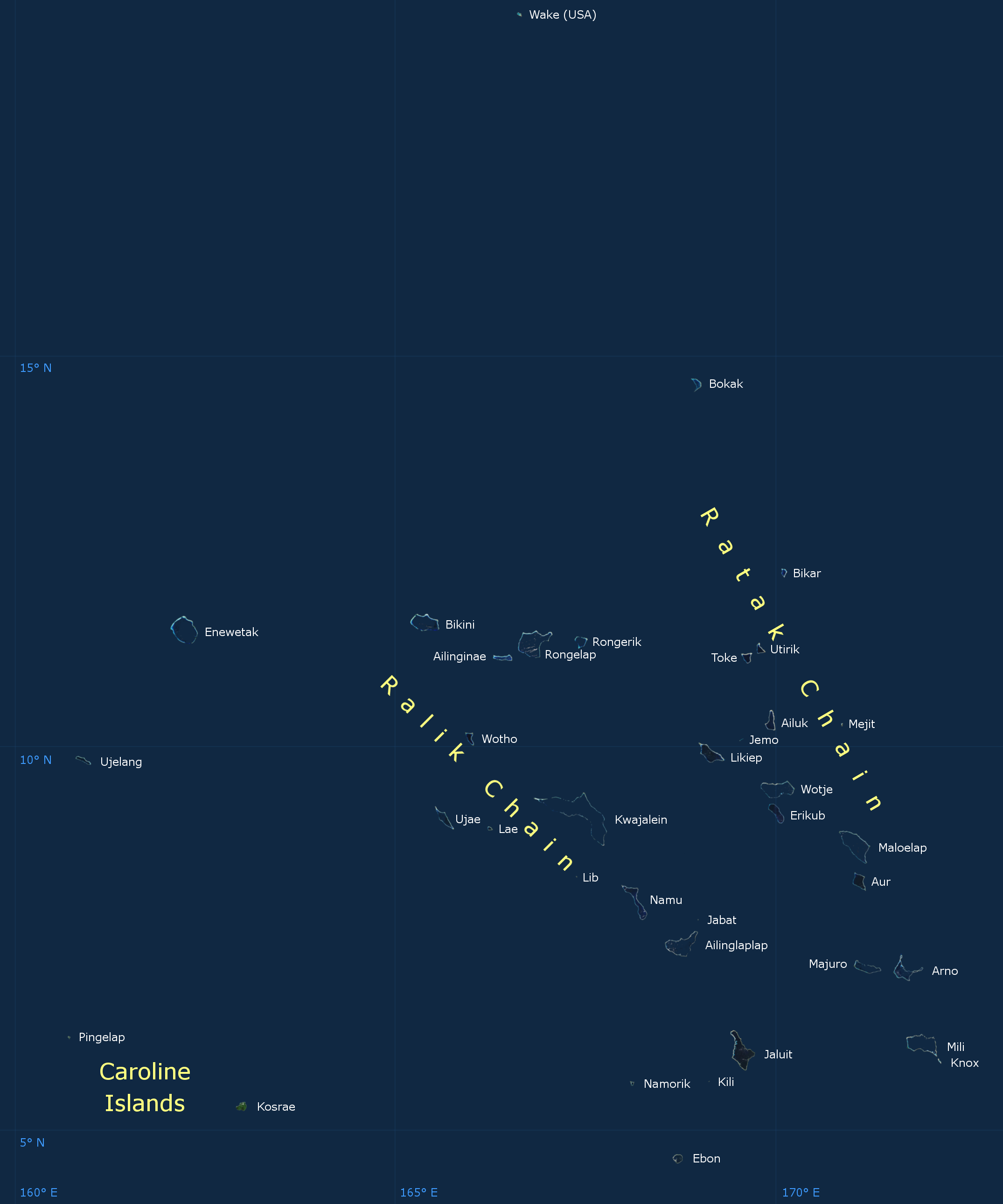 The Marshall Islands, an island nation in the Pacific Ocean, comprises two island chains, Ralik and Ratak. Wake atoll to the north belongs to the United States. Two islands to the southwest are part of Caroline Islands and the Federated States of Micronesia.